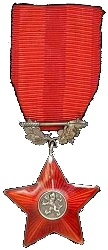 Czechoslovak Socialist Republic: Order of the Red Star (First type 1955-1960)